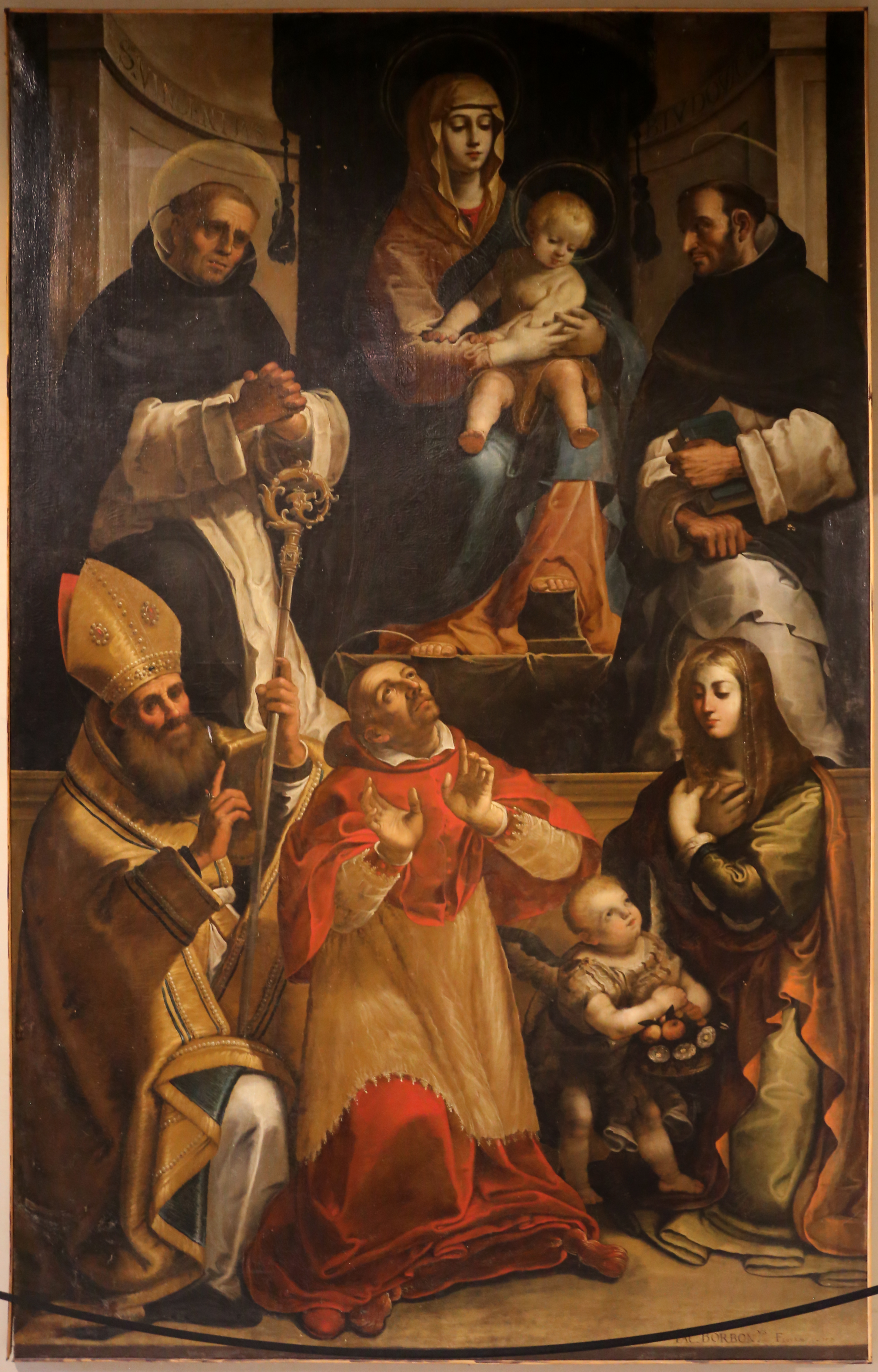 Collections of Palazzo Ducale (Mantua)